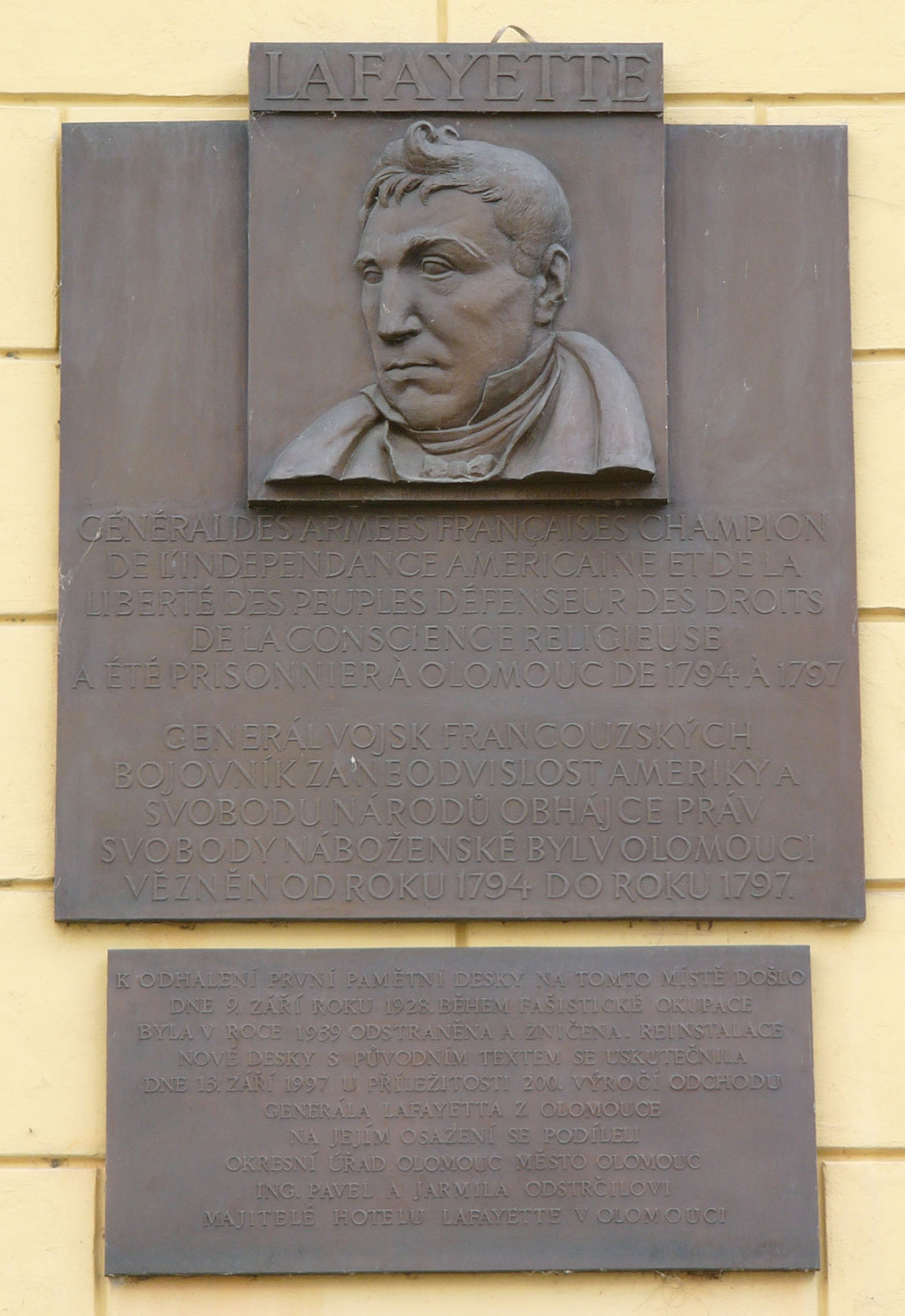 Memorial of Gilbert du Motier, marquis de Lafayette by Karel Lenhart in Olomouc, the Czech Republic.